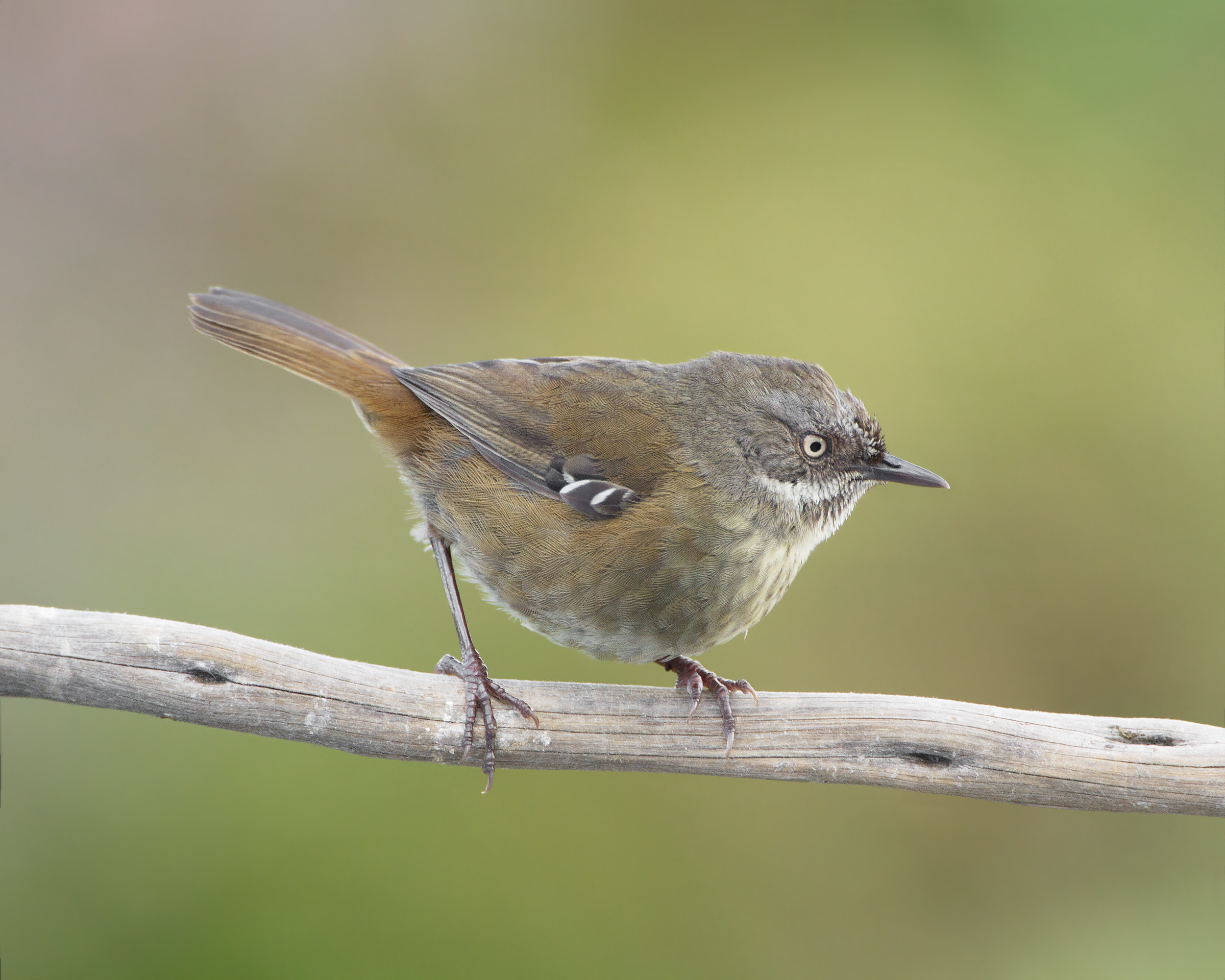 Tasmanian Scrubwren (Sericornis humilis), Melaleuca, Southwest Conservation Area, Tasmania, Australia